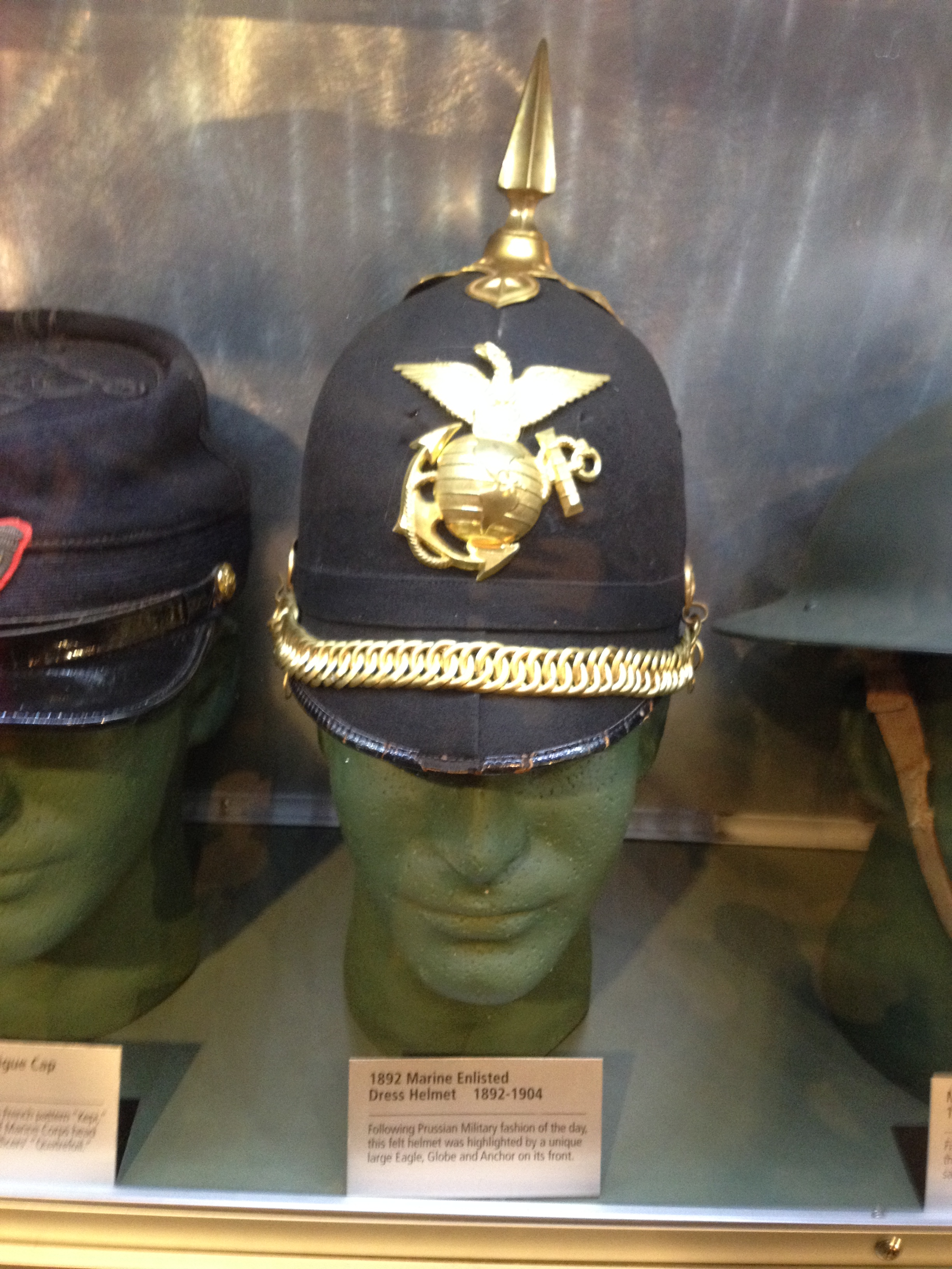 This is a helmet that used to be the US marine corps's helmet, same as the german Pickelhaube